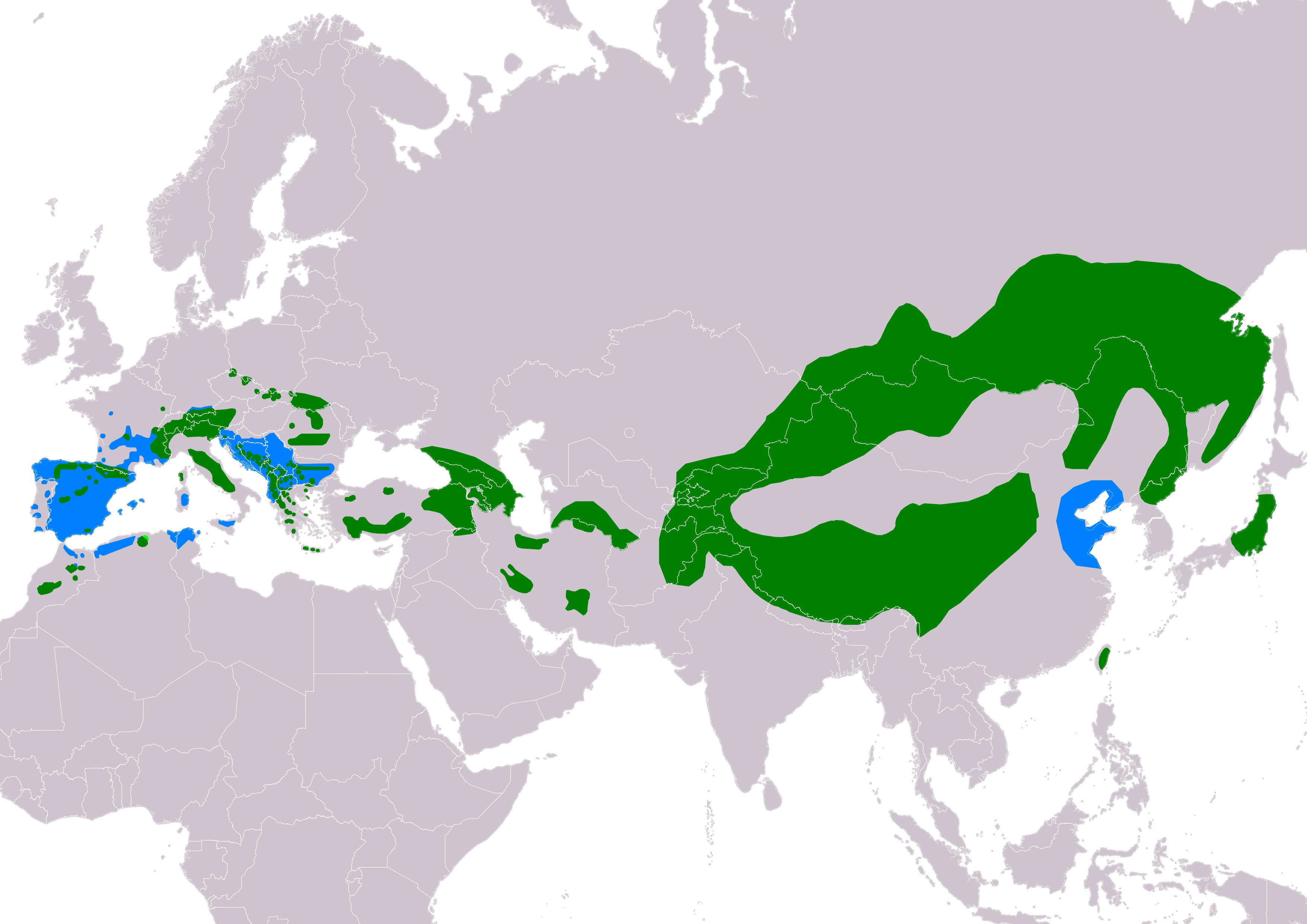 Distribution map of alpine accentor (Prunella collaris) according to IUCN version 2020.1 (compiled by: BirdLife International and Handbook of the Birds of the World (2016) 2006.); key: Legend: Extant, breeding (#00FF00), Extant, resident (#008000), Extant, non-breeding (#007FFF)